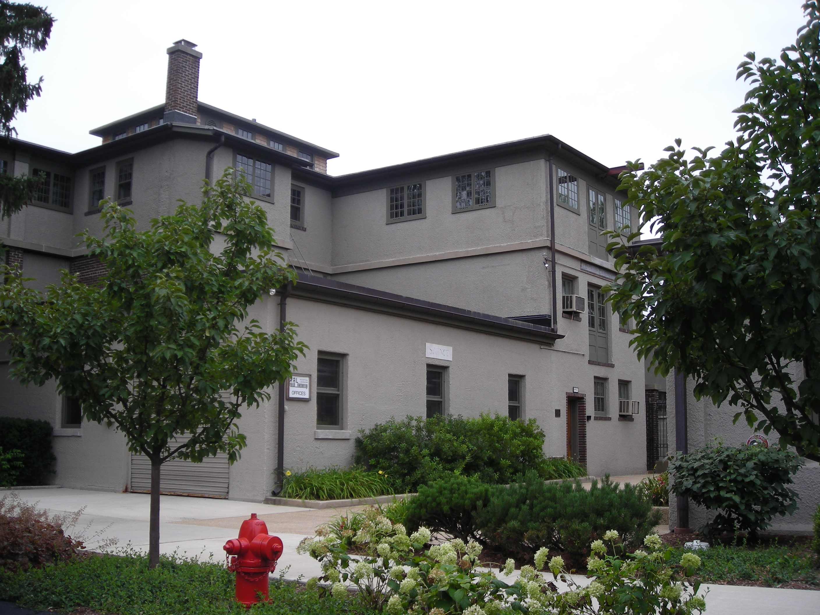 Riverbank Laboratories. Geneva, IL. National Register of Historic Places